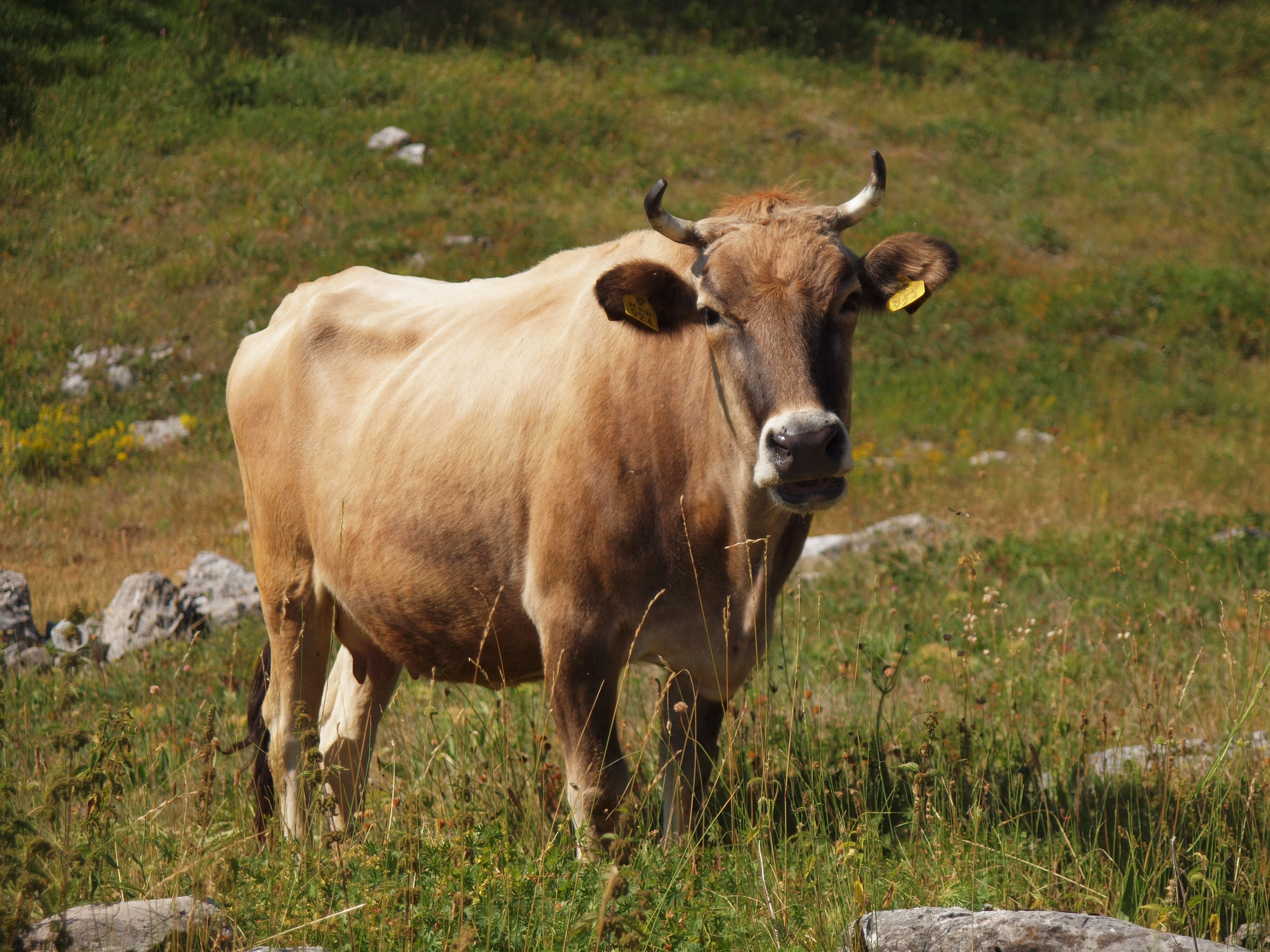 Buša cattle - Illyrian cattle leg P.Cikovac Bijela gora - Mt Orjen Montenegro